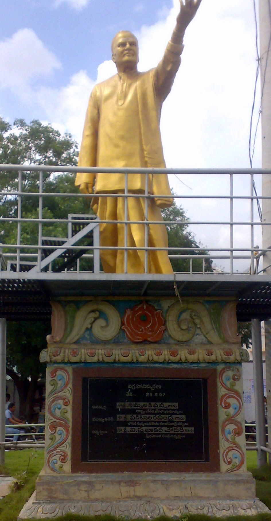 NTR CIRCLE, ANANTAPUR